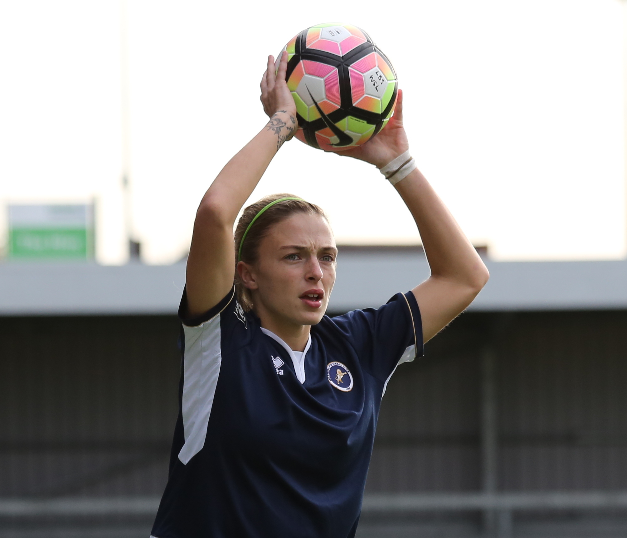 London Bees v Millwall Lionesses, 28 October 2017